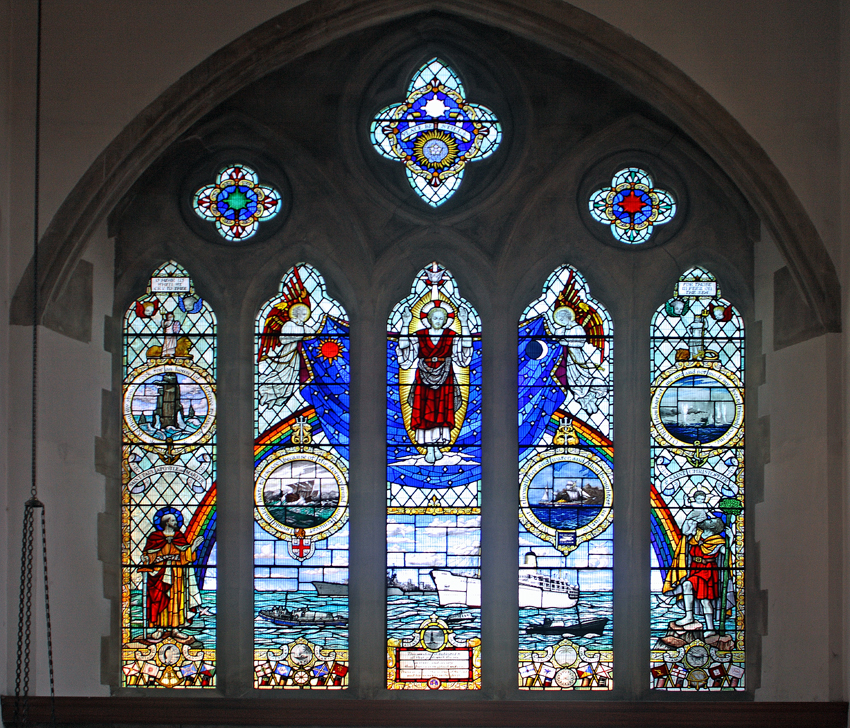 Seafarers' chapel window in St Mary's parish church, Southampton, Hampshire